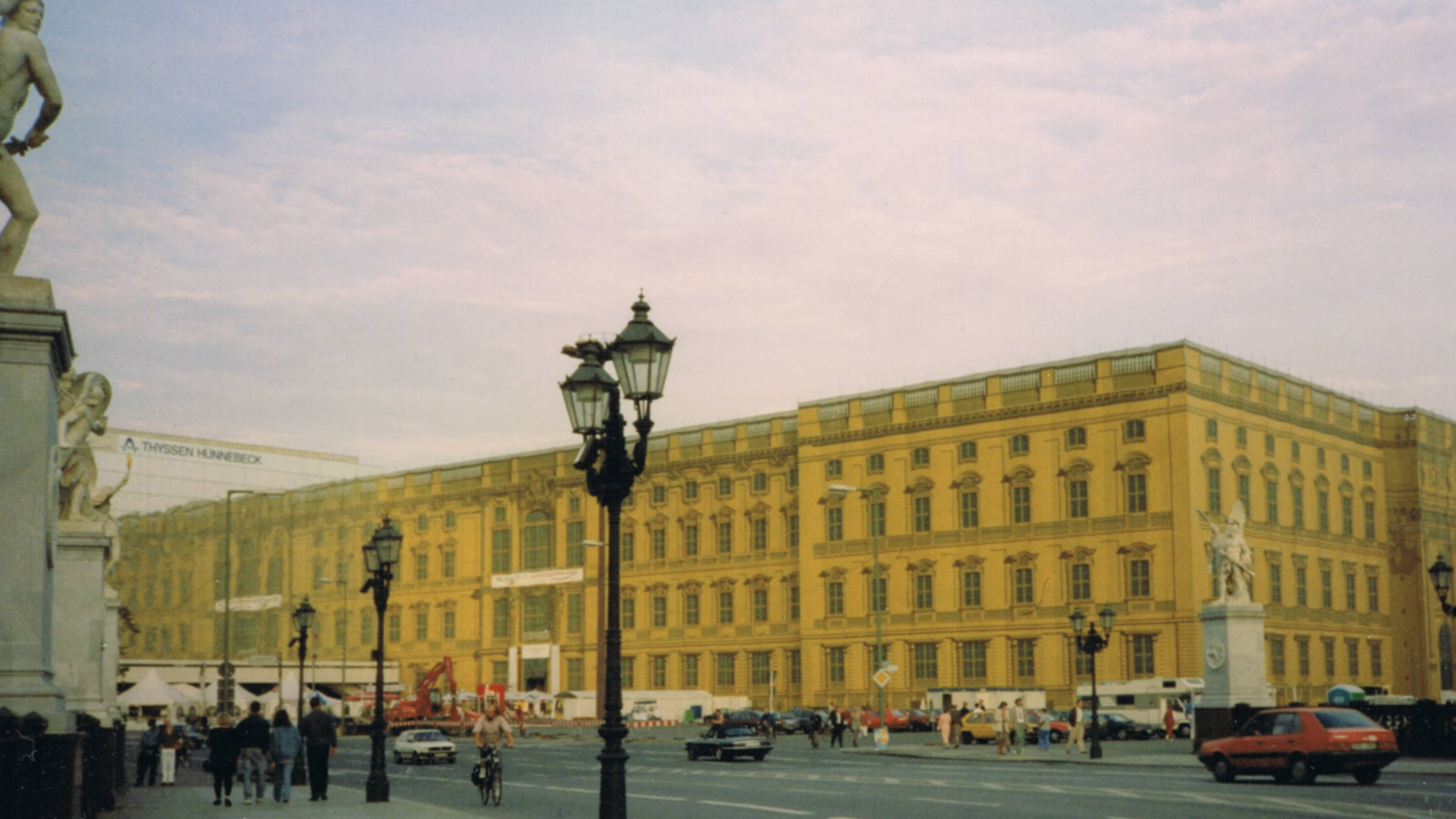 Moque-up-palace in the centre of Berlin. Brücke